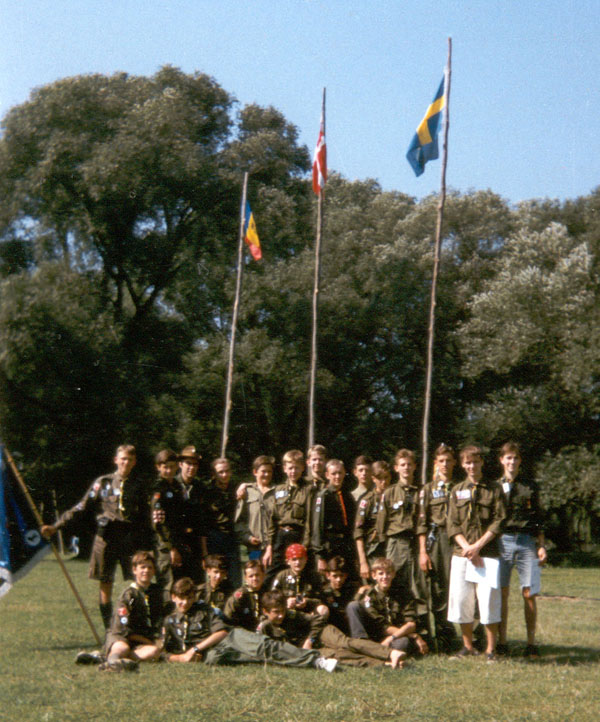 Participants of the 1st Ukrainian Scout Jamboree.